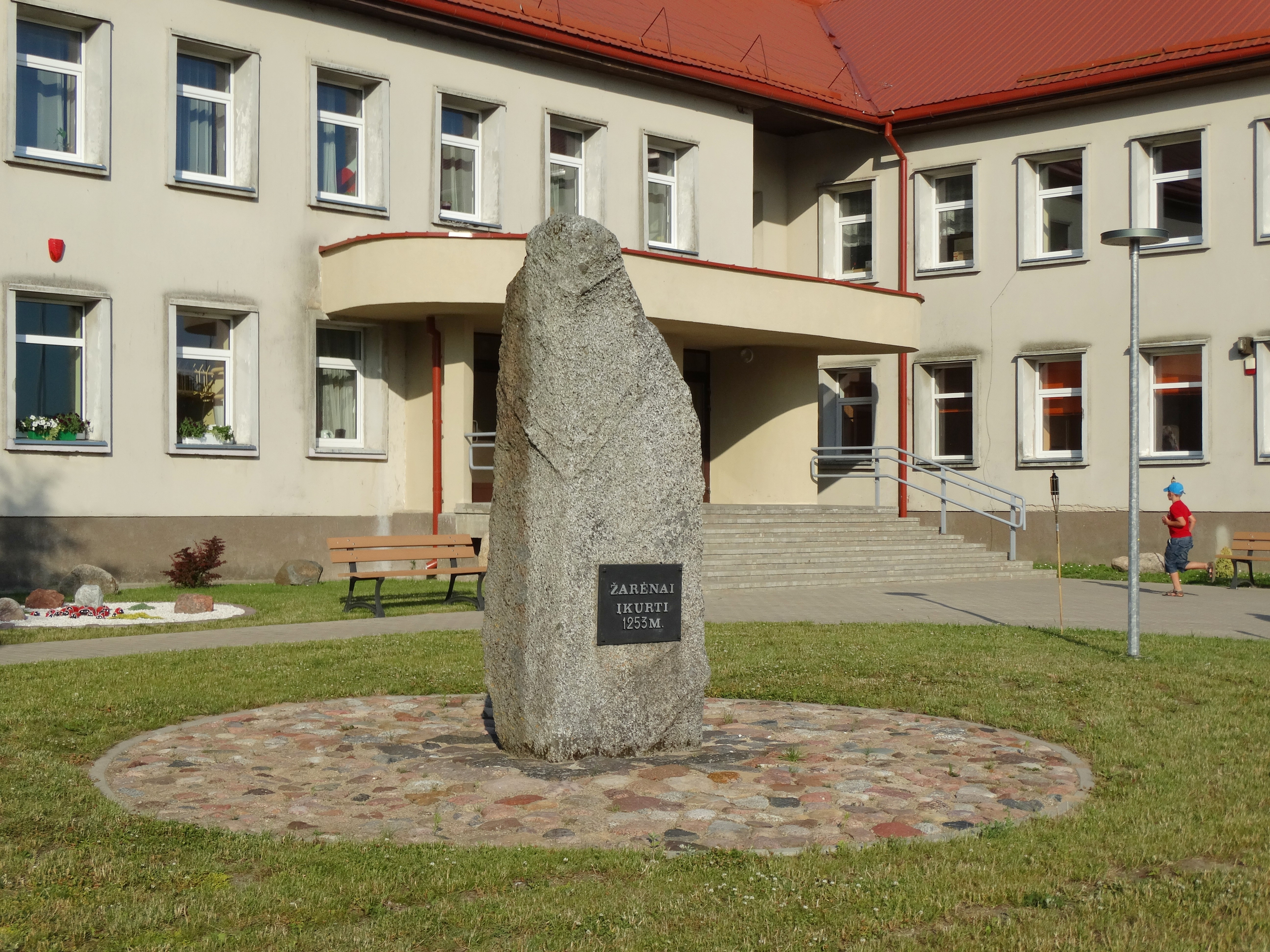 Inscribed stone, Žarėnai, Telšiai District,, Lithuania